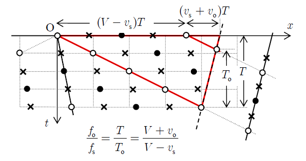 This figure is made in order to assist the proof of the formular of Doppler shift